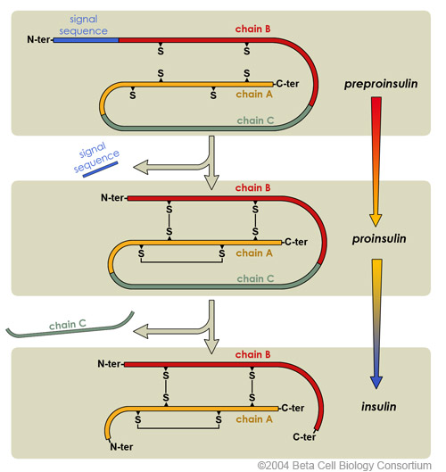 Insulin Maturation.